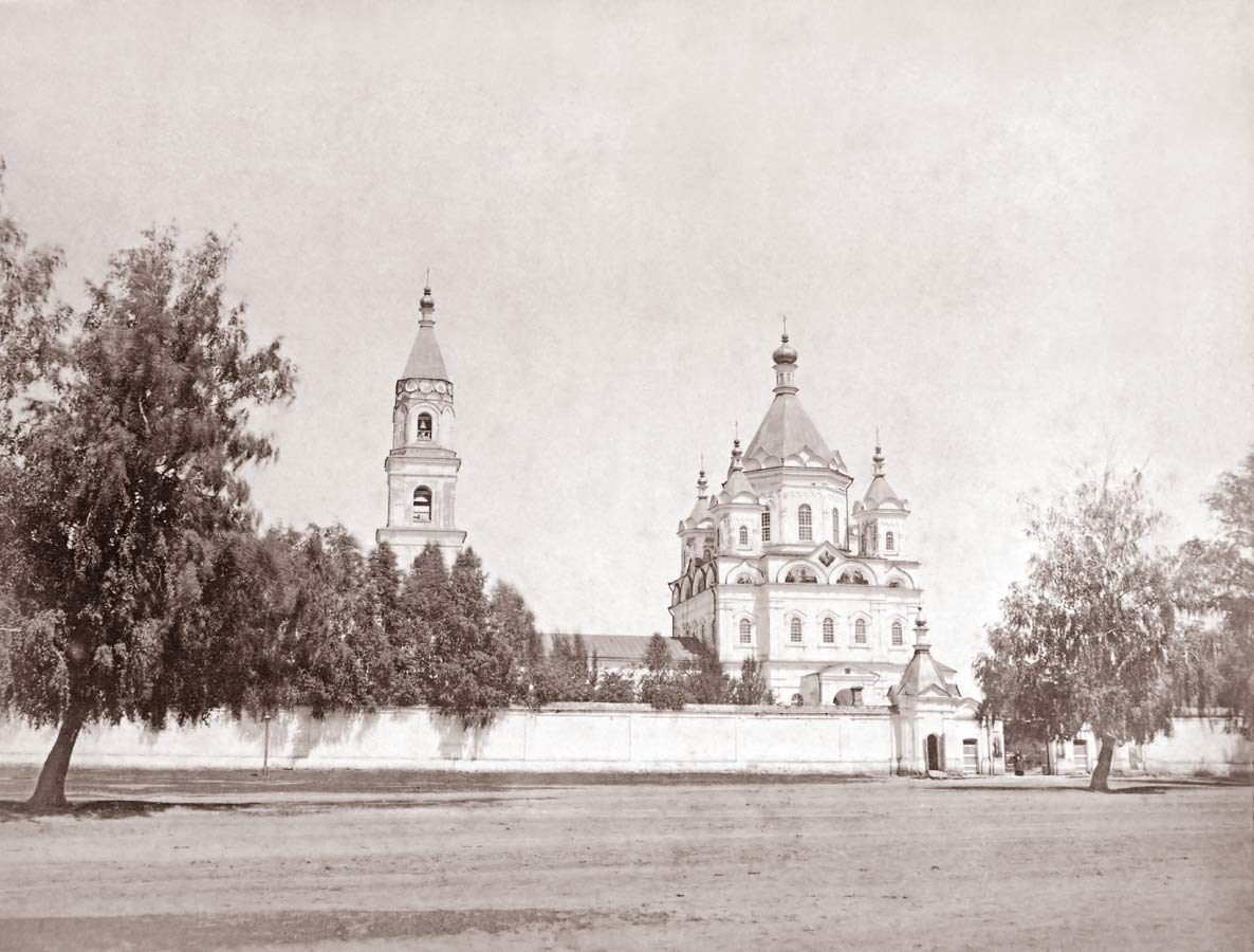 Orthodox convent Elabuga (Kazan diocese)